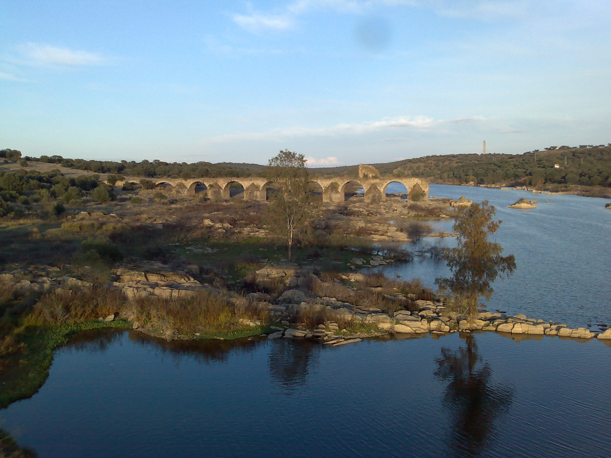 Ajuda bridge, Elvas